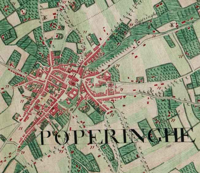 Poperinge, Belgium_;_ detail from Ferraris_Map